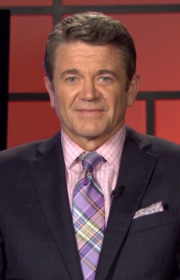 Game show host John Michael Higgins being interviewed in 2018